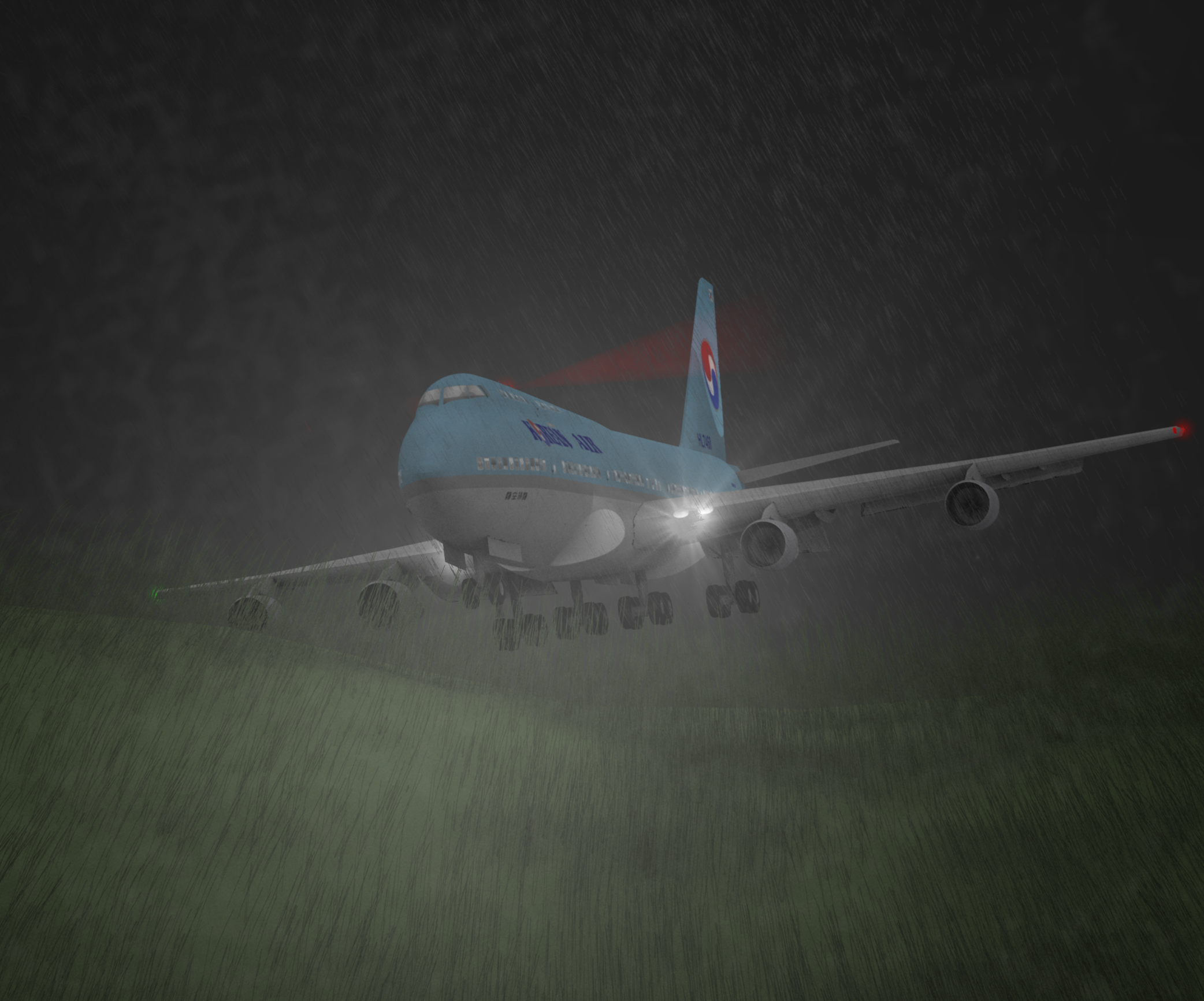 Korean Air Flight 801. in august, 1997 the crash on KAL Flight 801. The Korean air Boeing 747-300 crashing at 1:42am. 228 passengers and crew died.